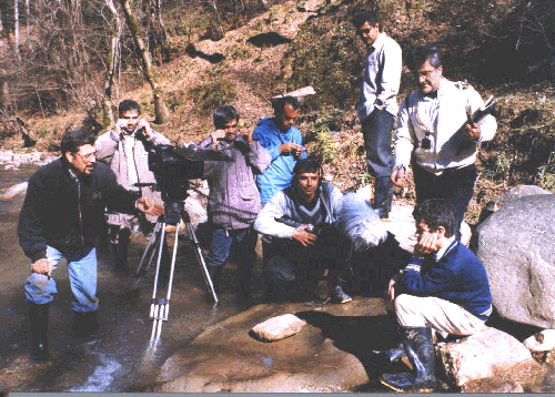 Film director Mahmoud Shoolizadeh directing an actor during the filming of Noora, along with other film crew.